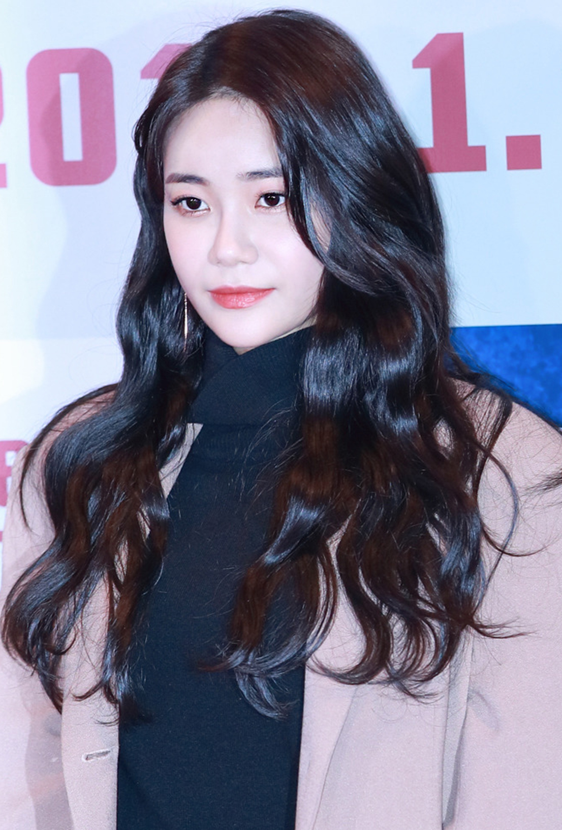 Seo Yu-na at the VIP premiere of the movie "Psychokinesis" on January 29, 2018.